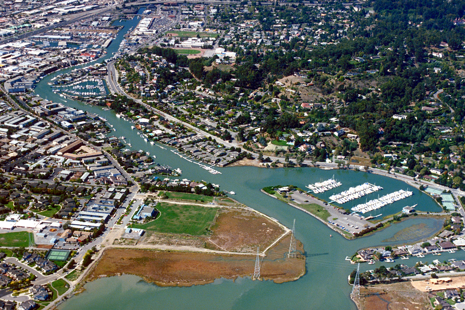 Aerial view of the Canal Area in San Rafael, California, USA. The area is situated along the western side of San Francisco Bay in Marin County, California. Pickleweed Park is situated on the point of land at center bottom in the picture. View is to the west. Coordinates: 37°58′11.81″N 122°29′58.78″W / 37.9699472°N 122.4996611°W